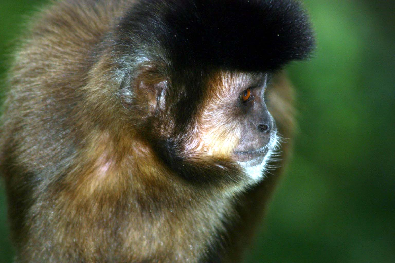 Adult Tufted Capuchin